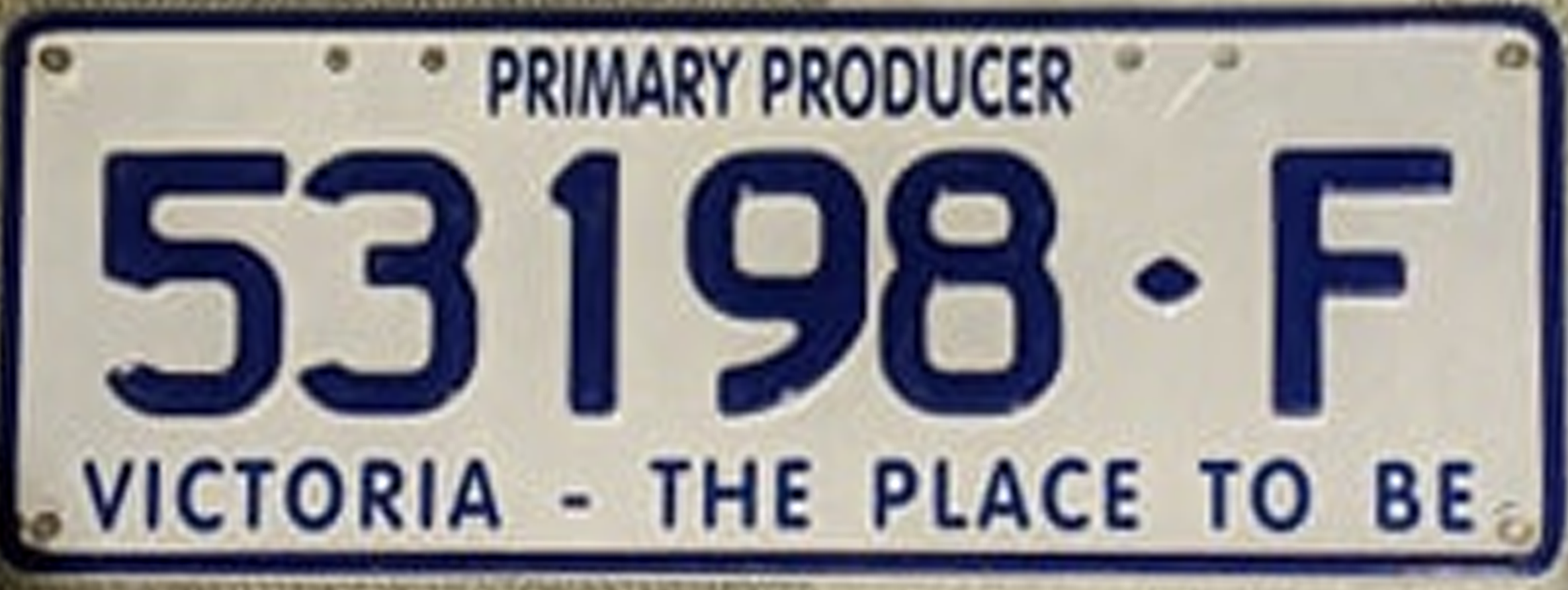 53198♦F Primary Producer